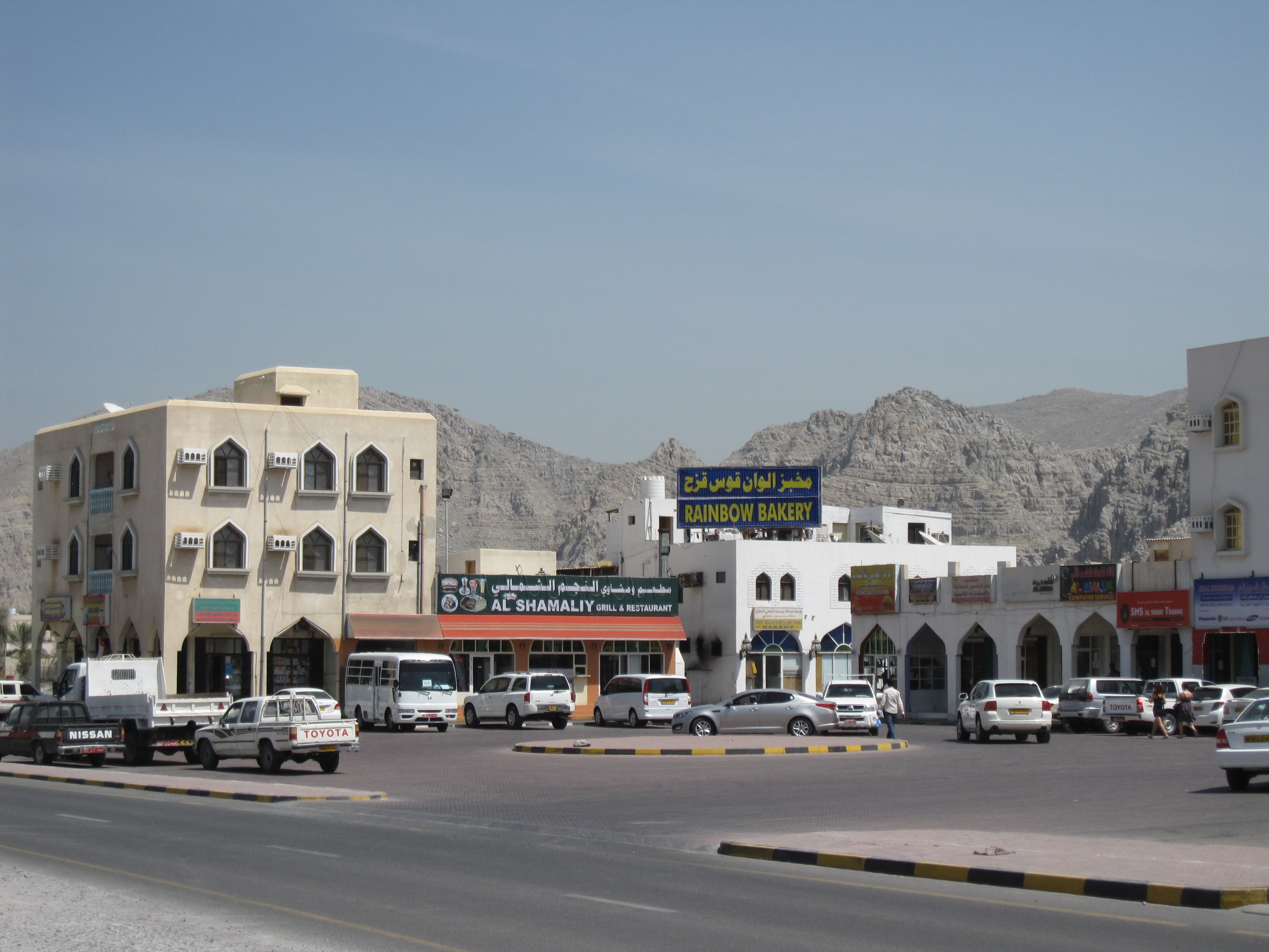 Central Souk area of Khasab